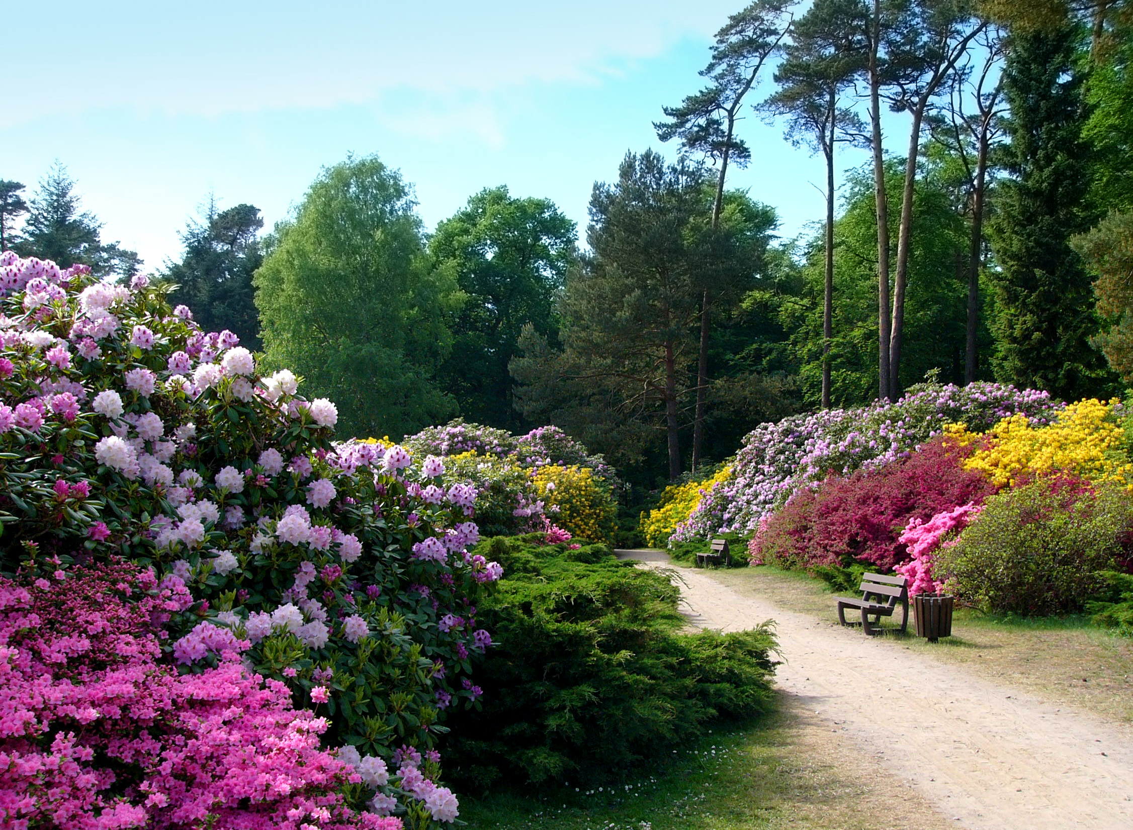 Description: Rhododendron Park in Graal-Müritz, Germany Source: own work Uploader: User:Nikater Date: October 23, 2006 Other Versions: none License status